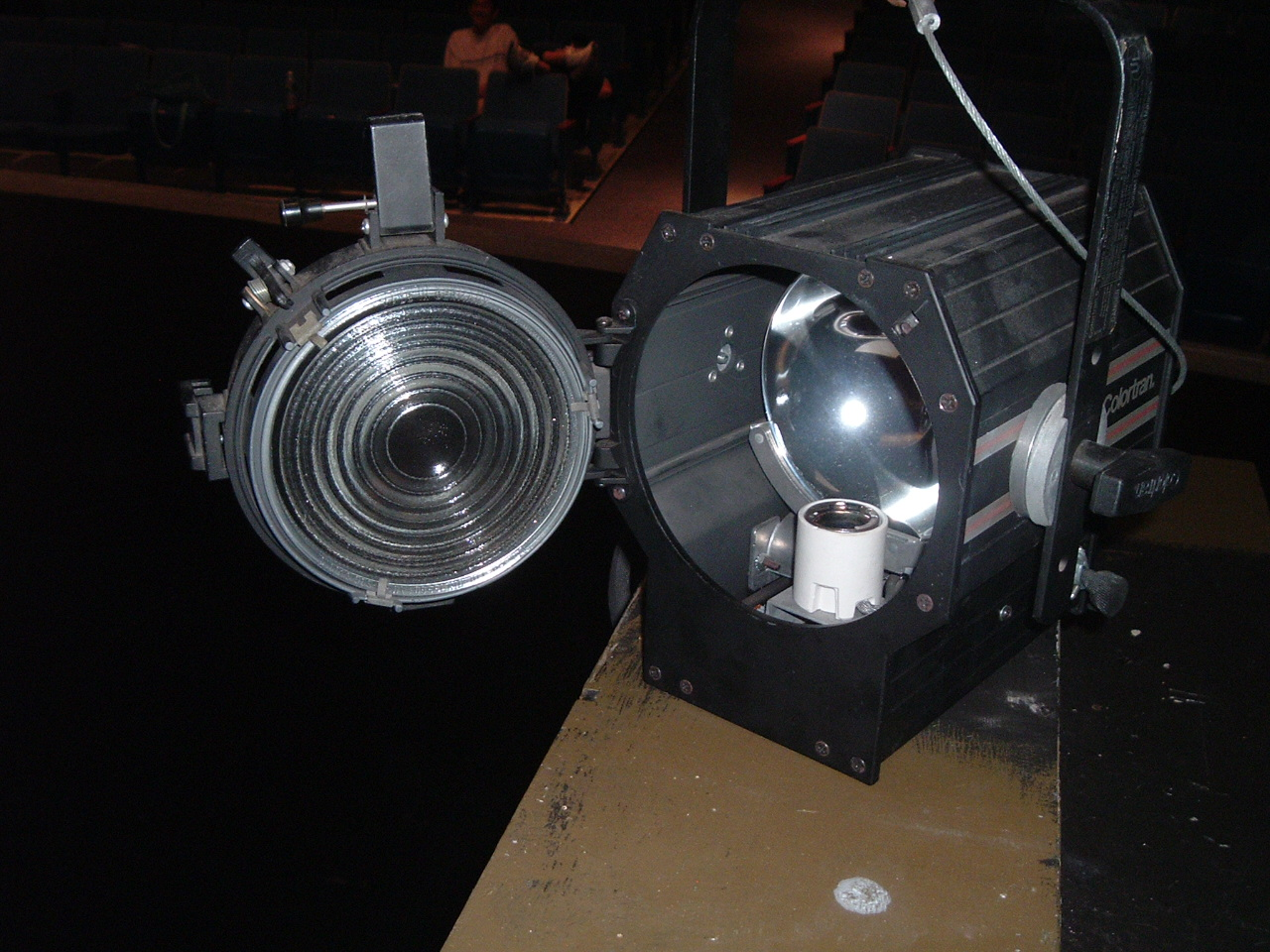 Photo of a Fresnel Lantern by KeepOnTruckin.